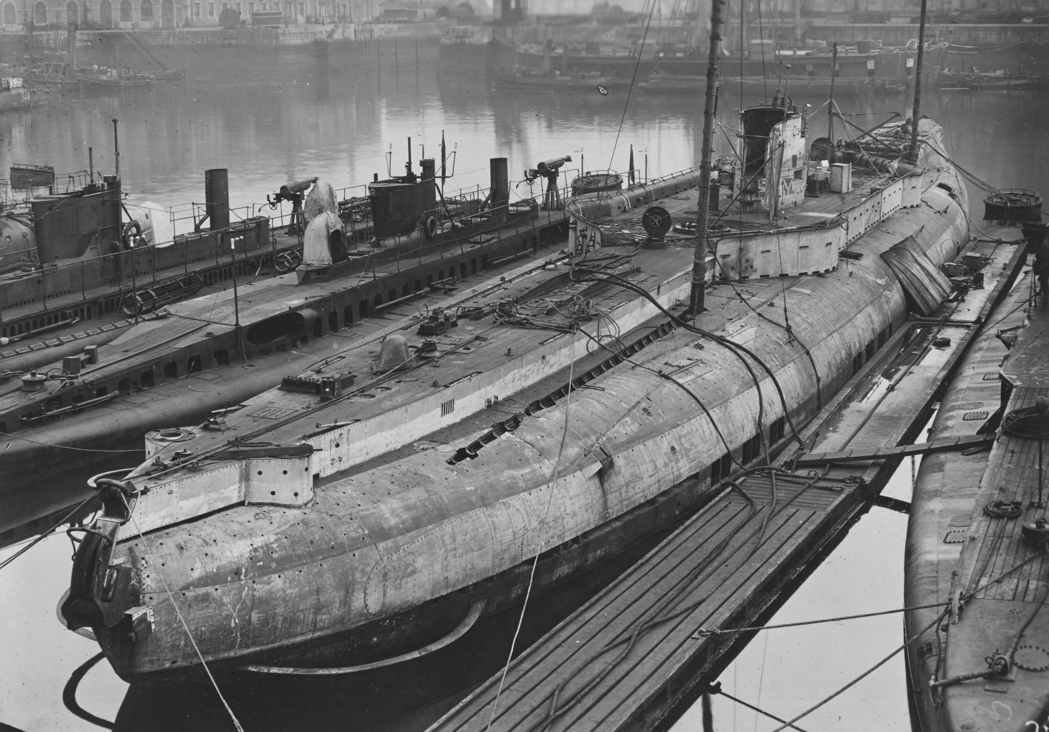 Title: French Submarines at Cherbourg Caption: From right to left: ex-German U-151 ex-mercantile OLDENBURG 1917-21, THERMIDOR 1907-20, and FRUCTIDOR 1909-22. Note the Drzewiecki torpedo launching apparatus external to the hull of the FRUCTIDOR.